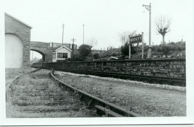 Wookey Station (Haybridge)